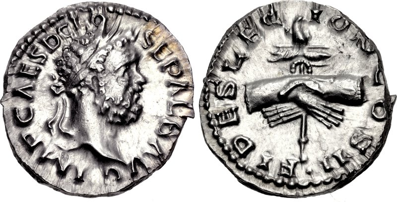 Clodius Albinus. AD 195-197. AR Denarius (16mm, 3.01 g, 6h). Lugdunum (Lyon) mint. IMP CAES D CLO SEP ALB AVG, laureate head right FIDES LEG ION COS II, clasped hands; in background, aquila surmounted by eagle perched on thunderbolt. RIC IV 20b; Lyon 23 (D48/R - [unlisted rev. die]); RSC 24; BMCRE 284.